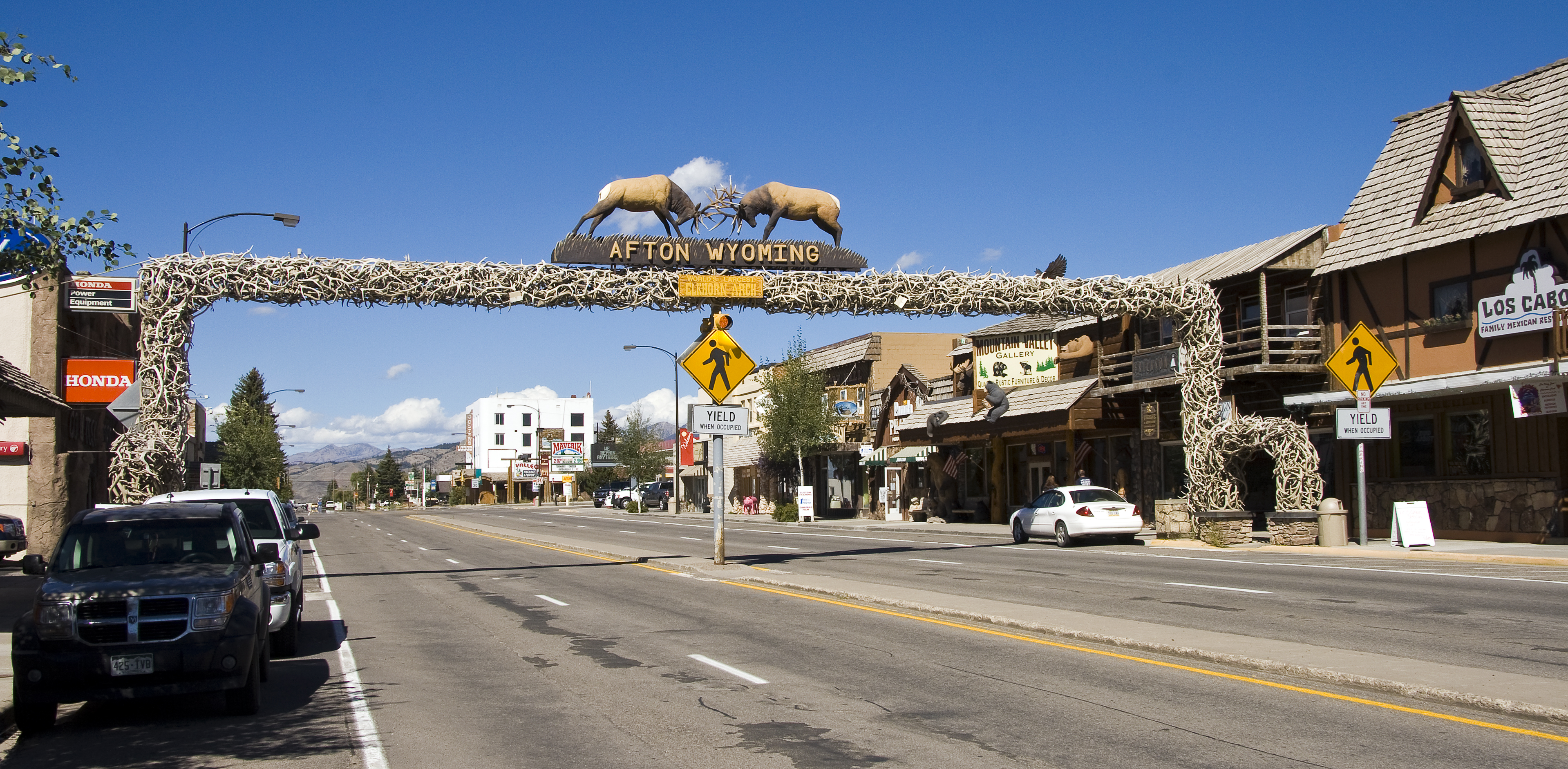 Main Street with arch made of elk antlers, Afton, Wyoming, USA